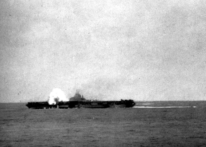 The U.S. Navy aircraft carrier USS Hancock (CV-19) is hit by a kamikaze suicide plane off Okinawa, 7 April 1945. In the USS Massachusetts (BB-59) World War II cruise book the carrier is identified as USS Wasp (CV-18). However, the carrier depicted is a long hull Essex class carrier wearing Camouflage Measure 32 Design 3a, which identifies the carrier as the Hancock.